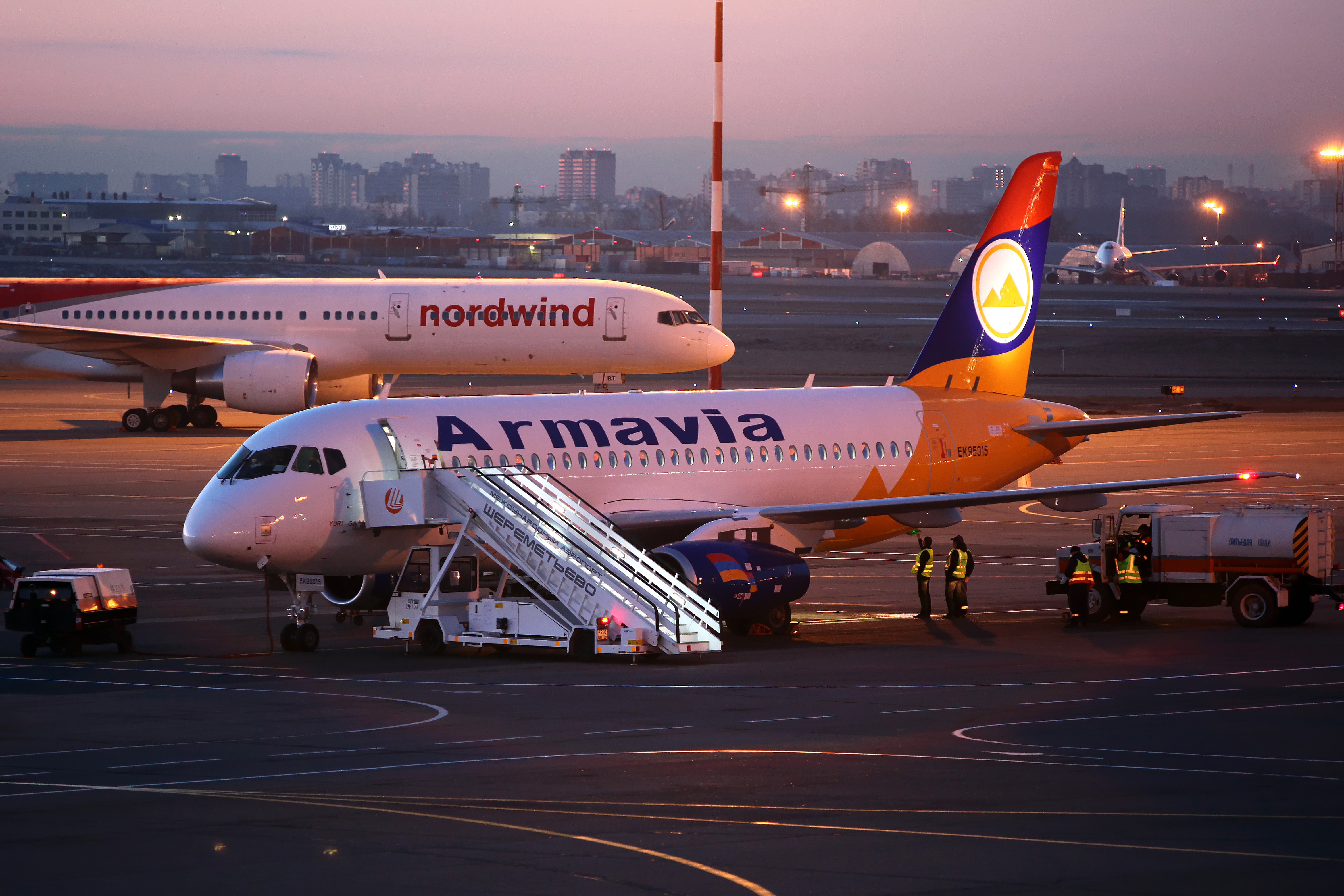 Armavia Sukhoi Superjet 100 (EK-95015) at Sheremetyevo International Airport